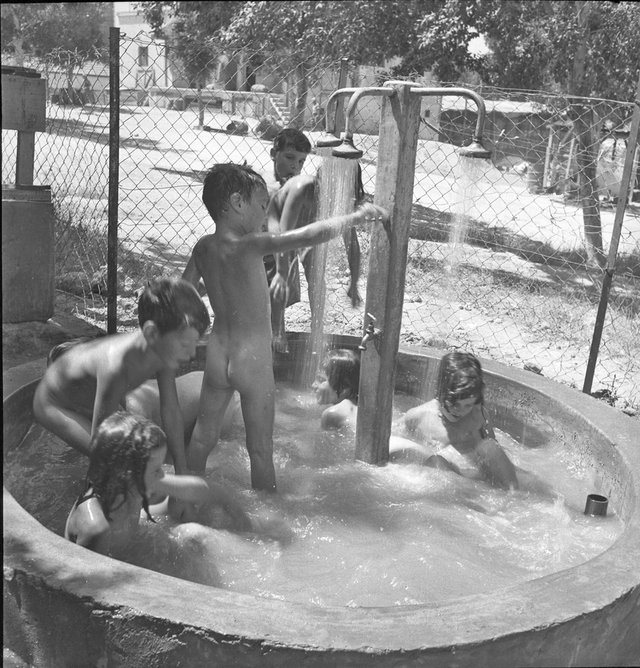 Courtyard of the children at Givat Brenner, Education in Israel